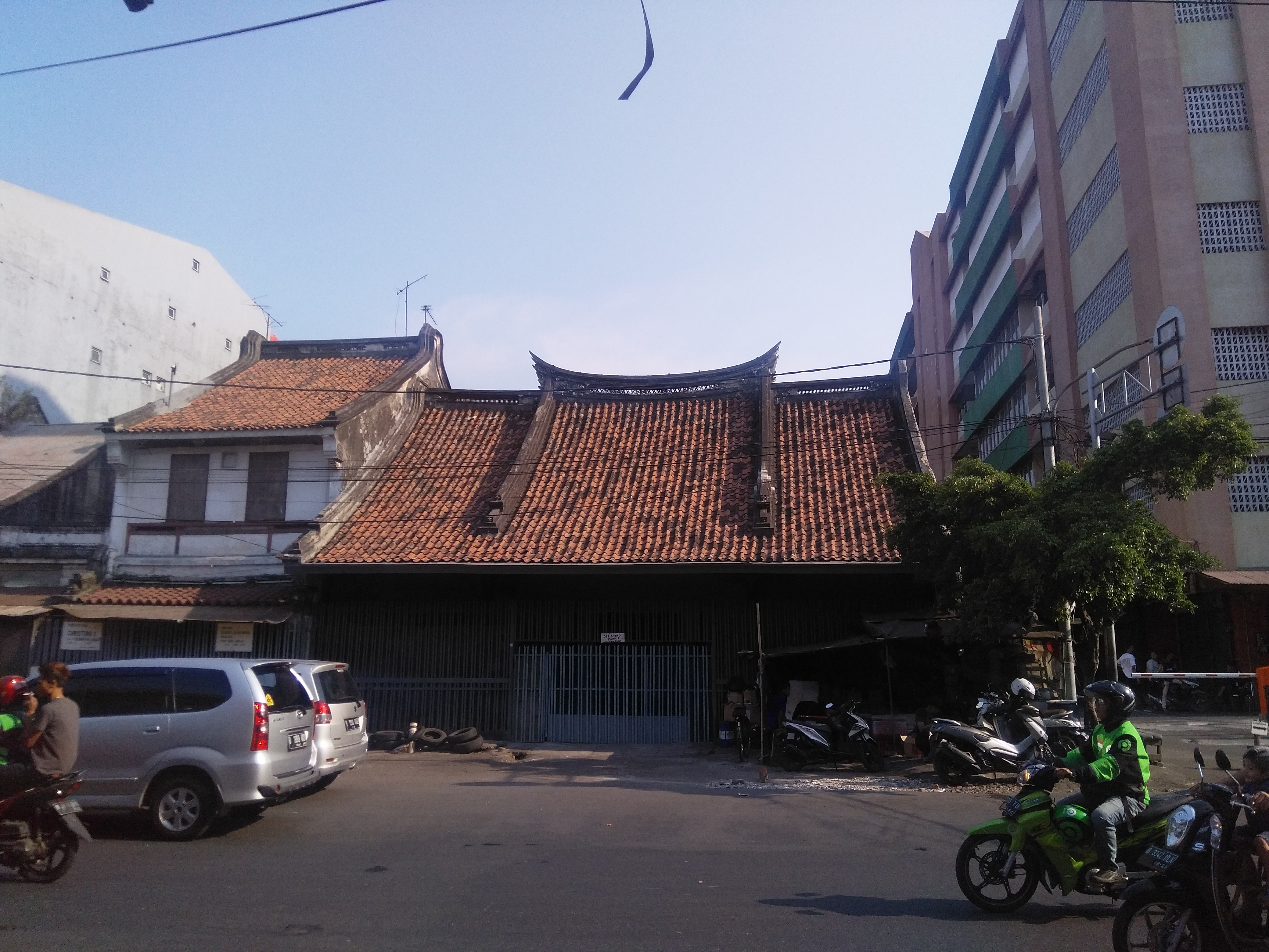 Souw Family house in Jalan Perniagaan, Jakarta. 客家語/Hak-kâ-ngî: 蘇家族屋下 / Sû-kâ-chhu̍k vuk-hâ